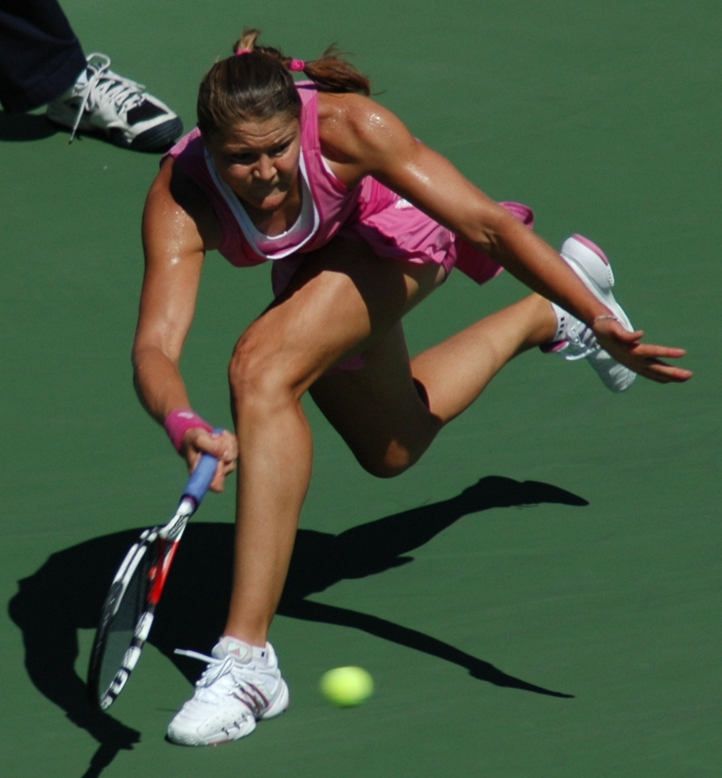 Dinara Safina at the 2008 US Open